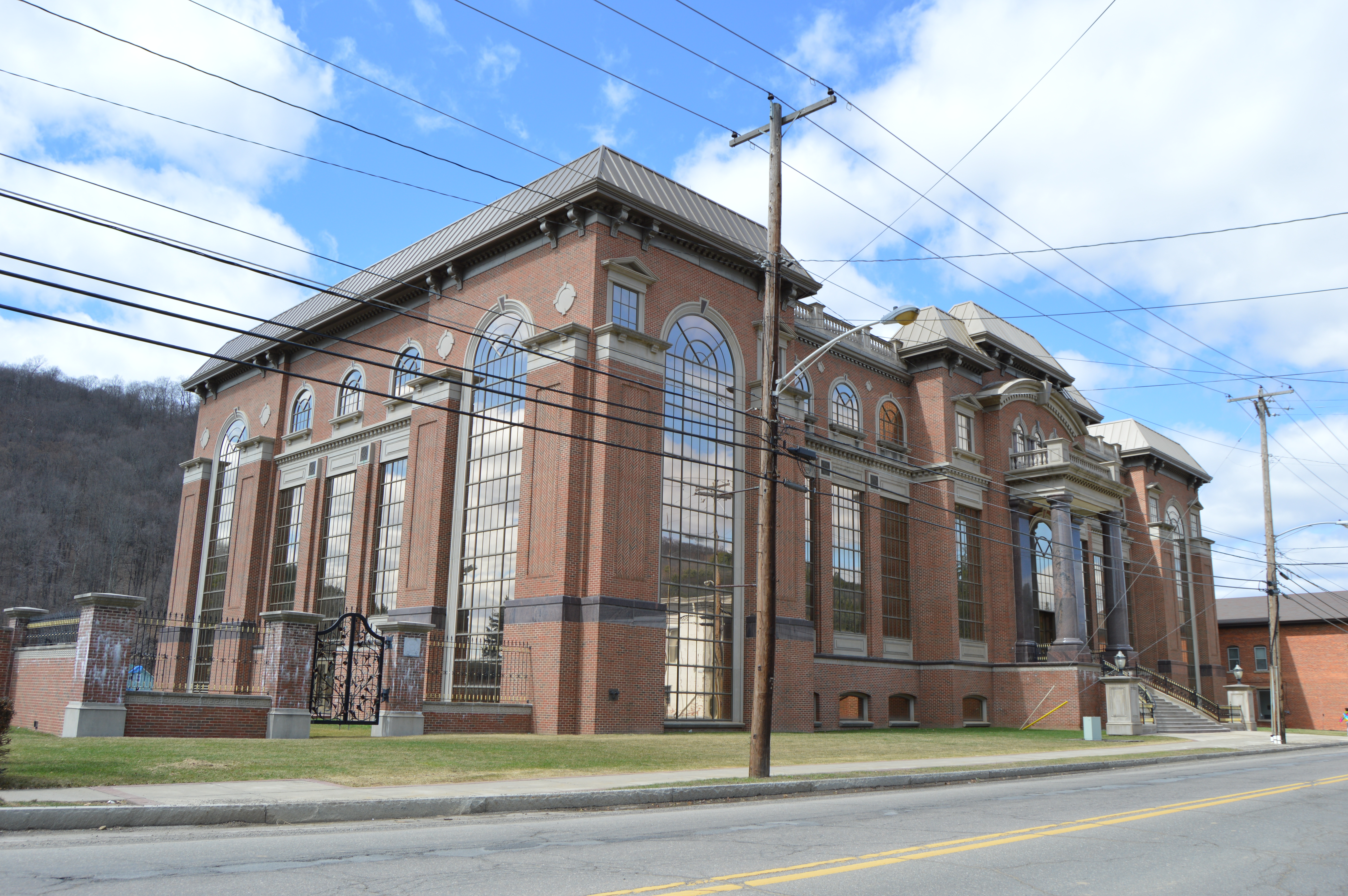 Front and southern side of a huge building located at 102 S. Main Street (U.S. Route 6) at its junction with Oak Street in Coudersport, Pennsylvania, United States. Built circa 2000, it was intended as offices for Adelphia Communications, but as the building was being completed, the company declared bankruptcy, and it was never used for its intended purpose. A local communications firm, Zito Communications, now uses part of the building.